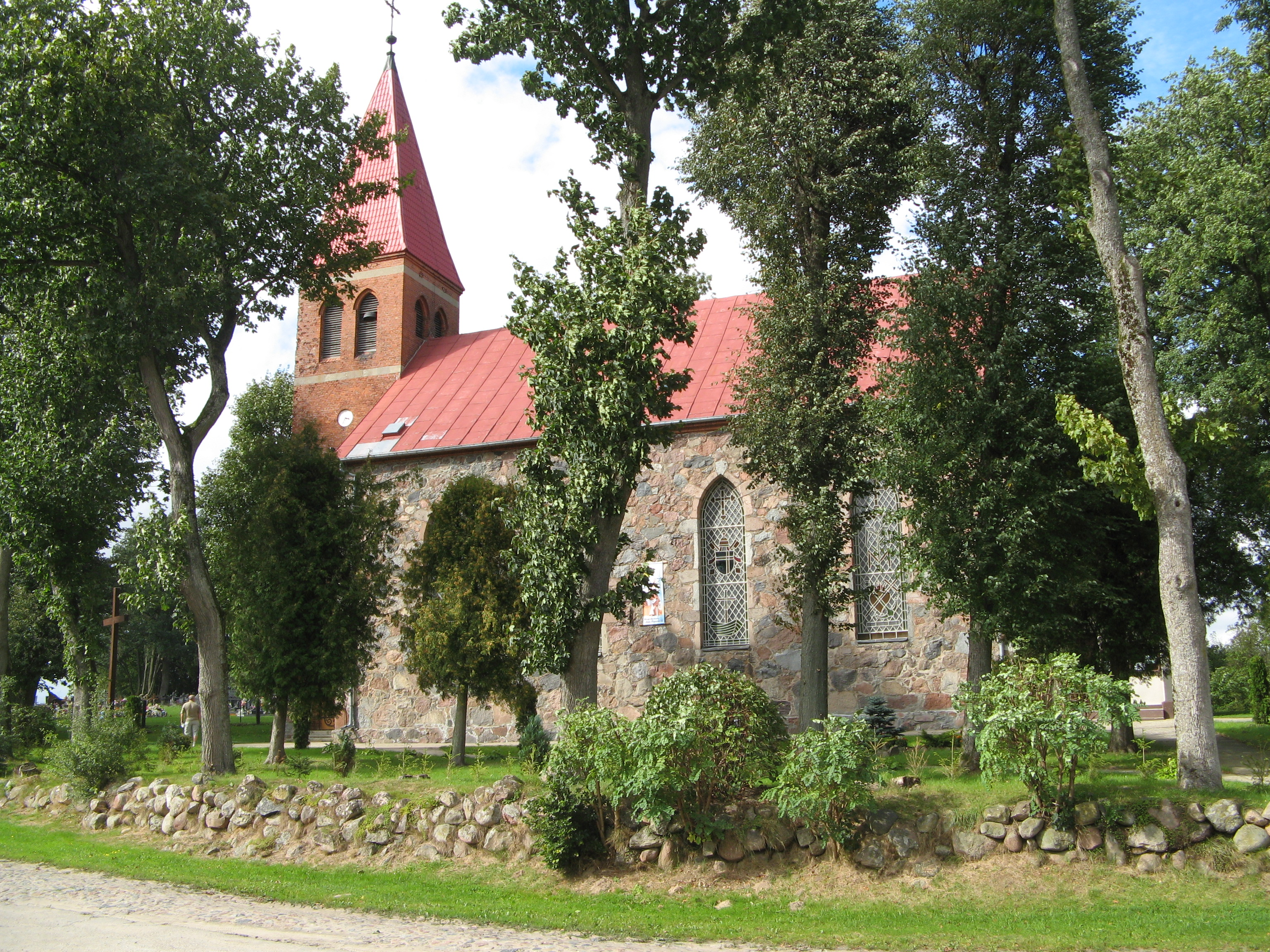 Church in Zagórzyca, Poland (before 1945 german Sageritz, Pommern